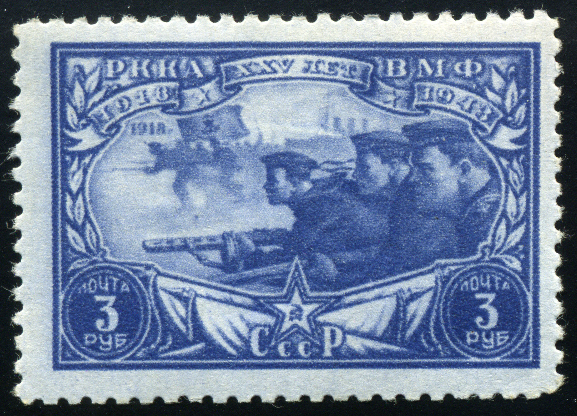 Soviet postage stamp of 3 rubles (1943). 25th anniversary of Red Army and Soviet Navy (1918-1943). Based on picture of V. Bibikov and A. Mandrusov: "Navy soldiers". CPA #868.